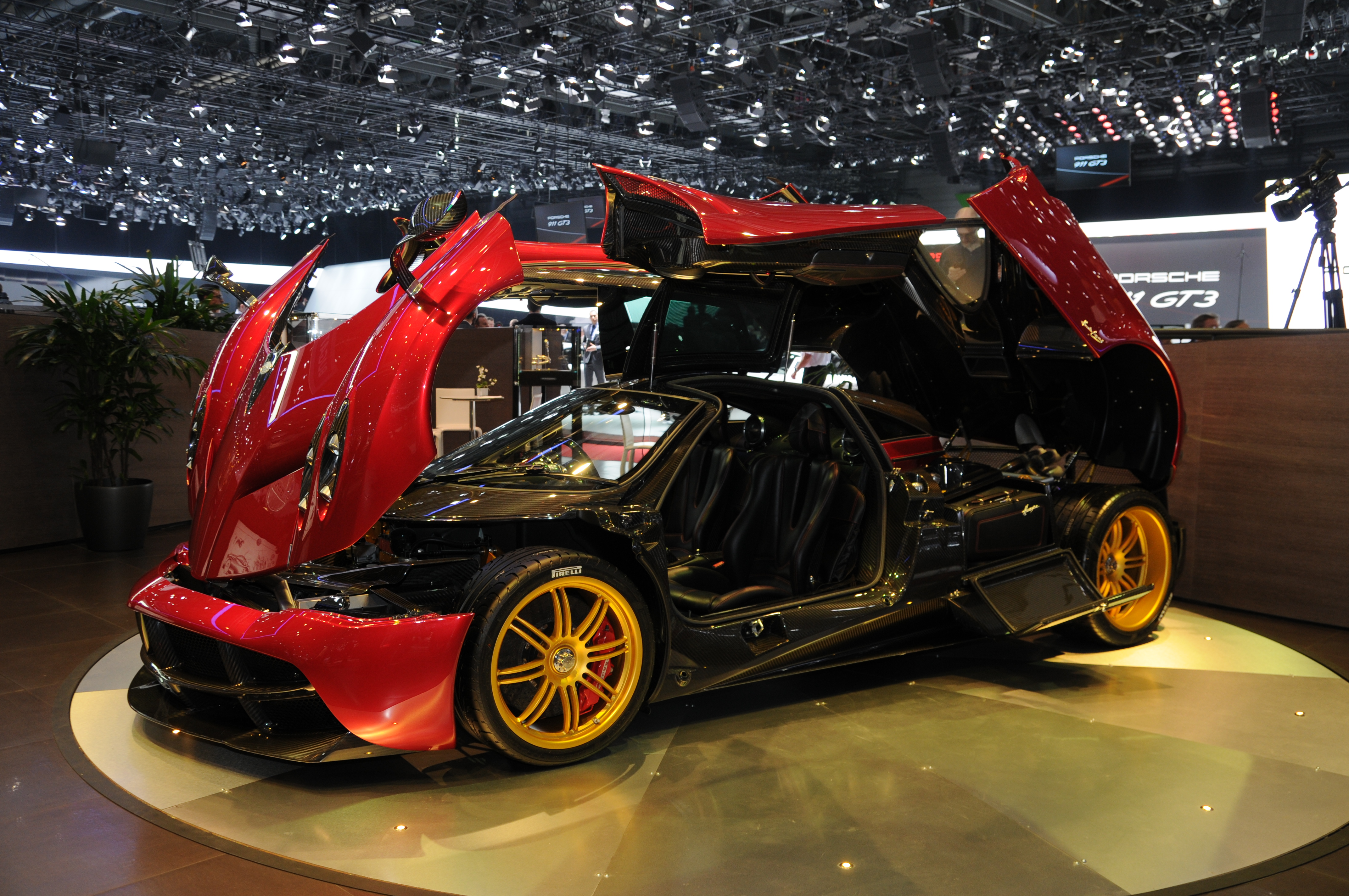 Geneva Motor Show 2013 (photos taken on the first press day)